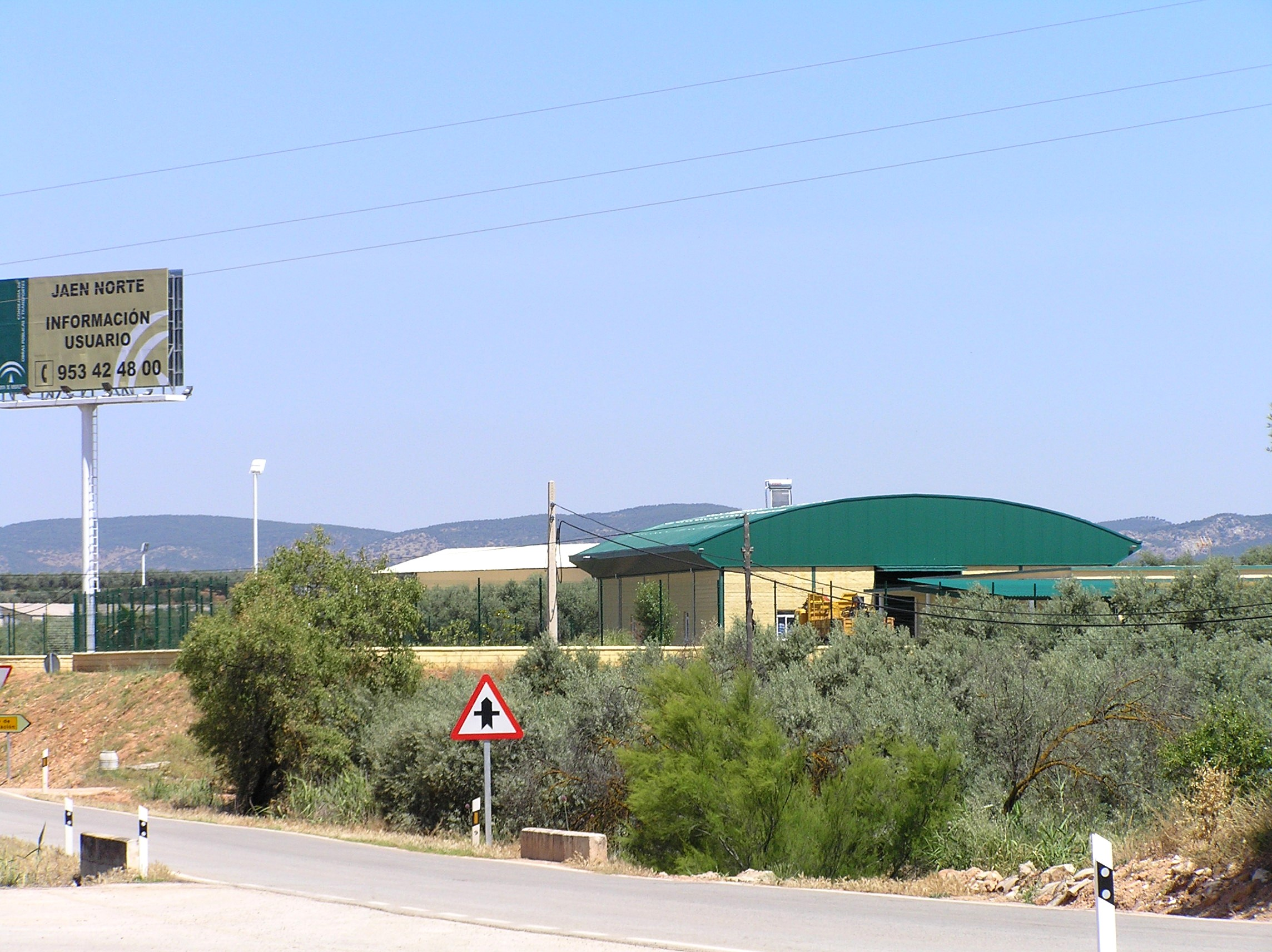 Centro de conservación de carreteras Jaén Nordeste